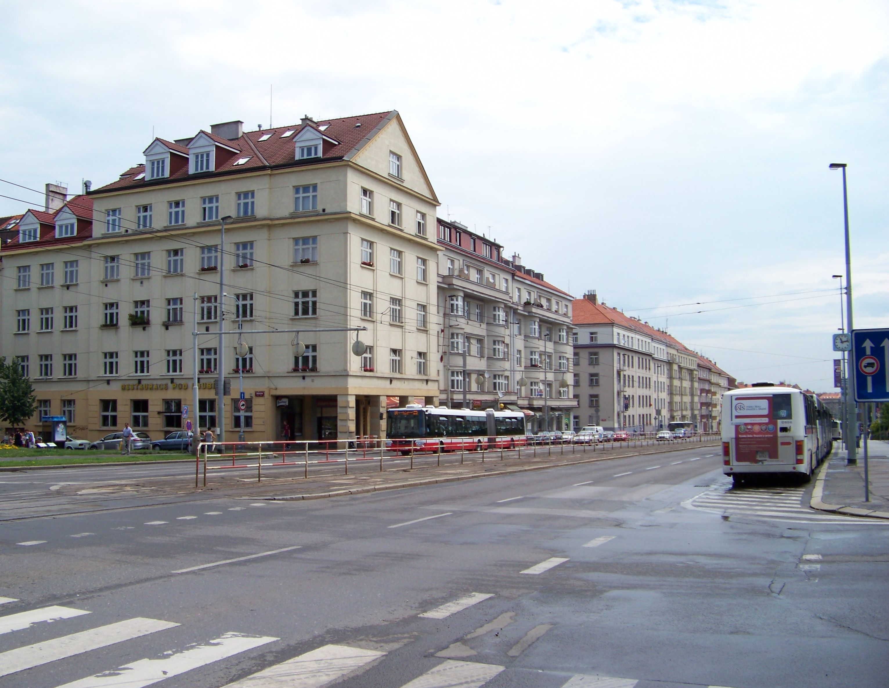 Prague-Dejvice, the Czech Republic. Evropská street, a bus stop. - OpenStreetMap(Info)